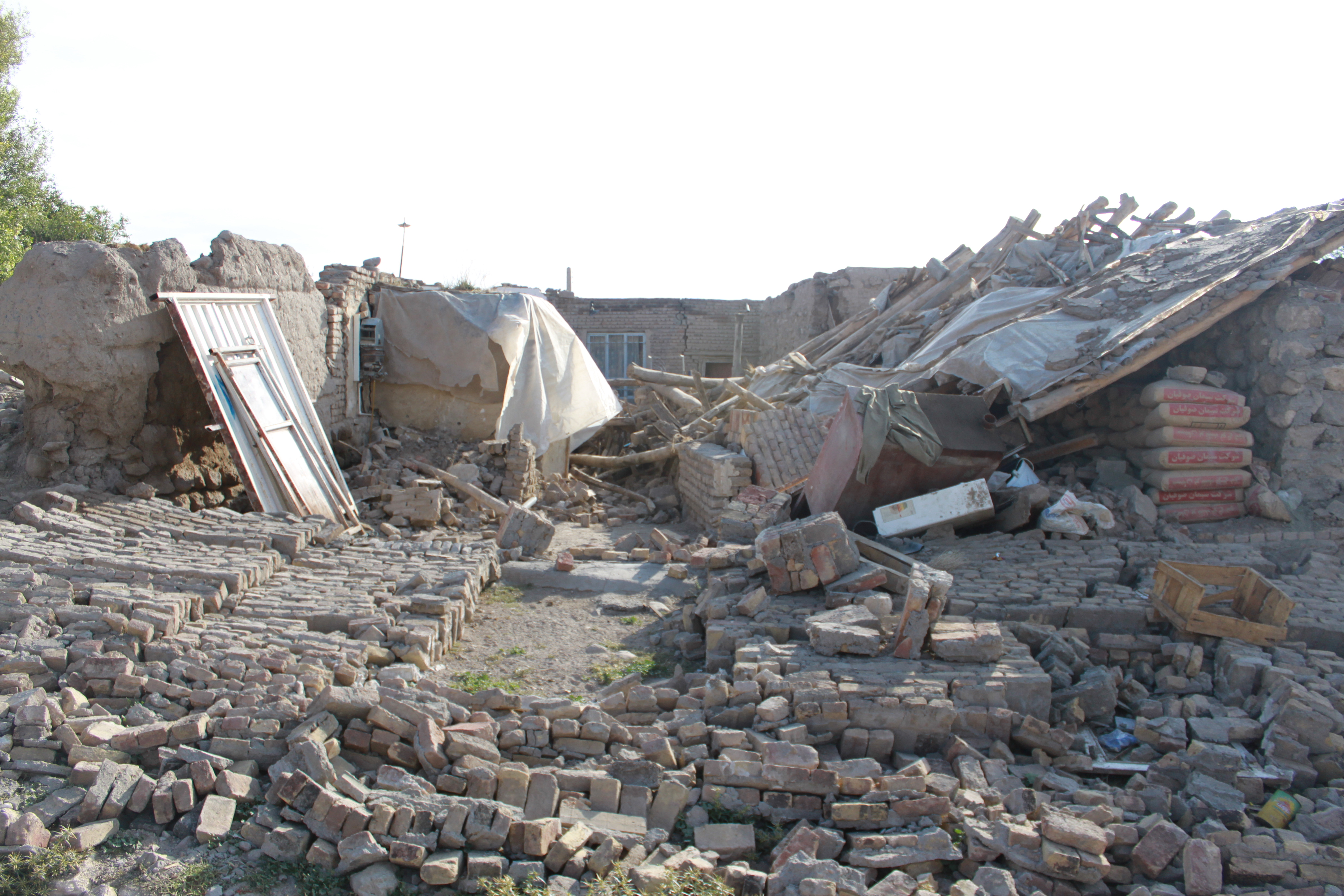 The 2012 East Azerbaijan earthquakes occurred near the cities of Ahar and Varzaqan in Iran's East Azerbaijan Province, on August 11, 2012, at 16:53 Iran Standard Time. The two quakes measured 6.4 and 6.3 on the moment magnitude scale, and were separated by eleven minutes. The epicenter of the earthquakes was 60 kilometers (37 miles) from Tabriz.